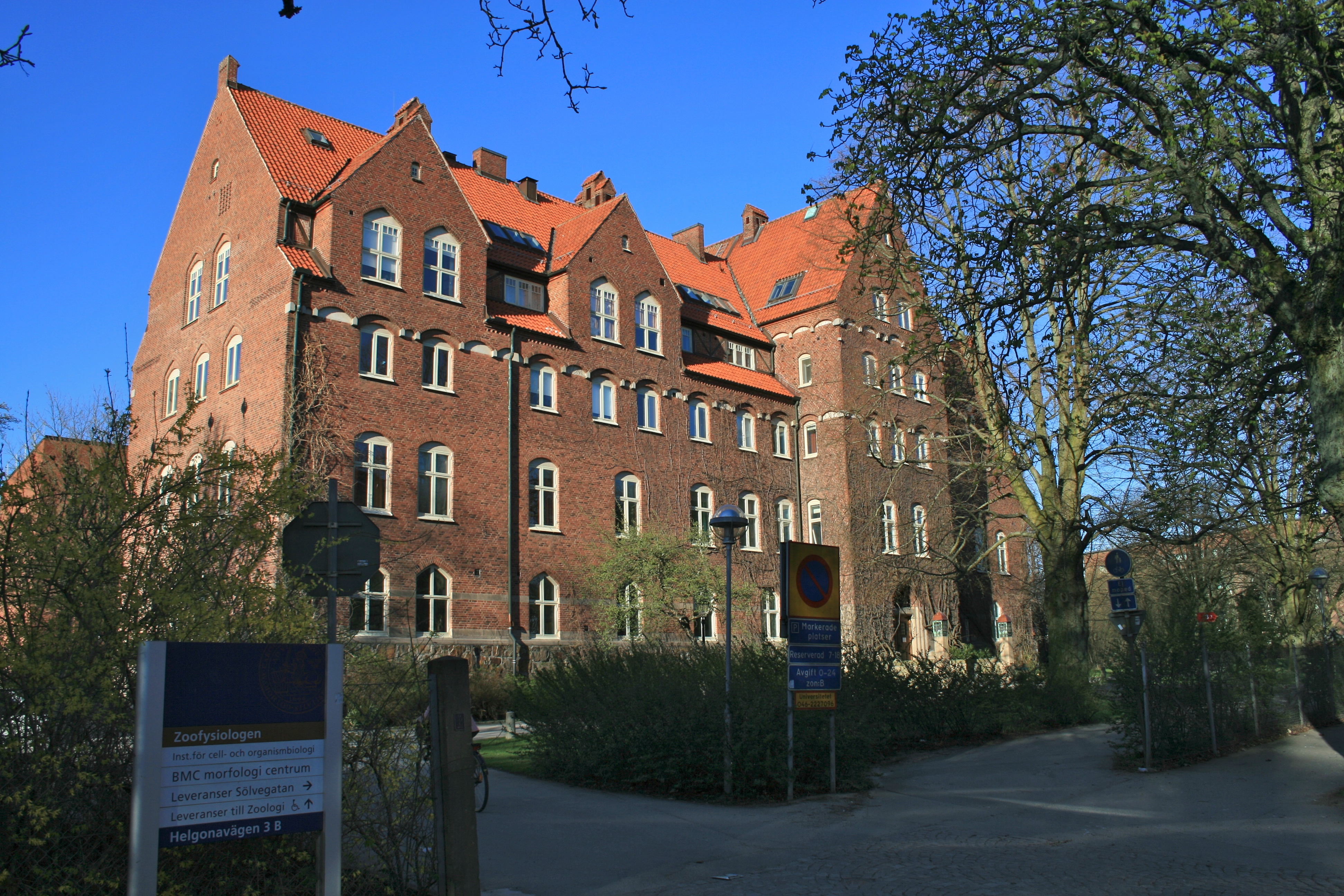 Zoologiska institutionen and Zoologiska museet in Lund